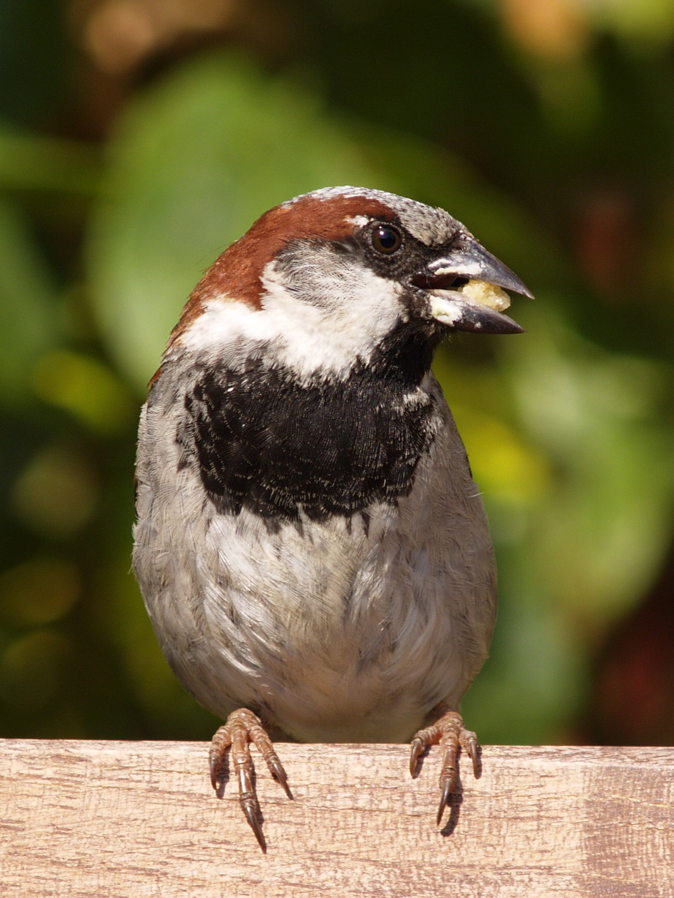 Sparrow on a chair